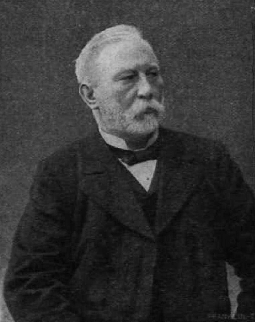 The educator Áron Kiss